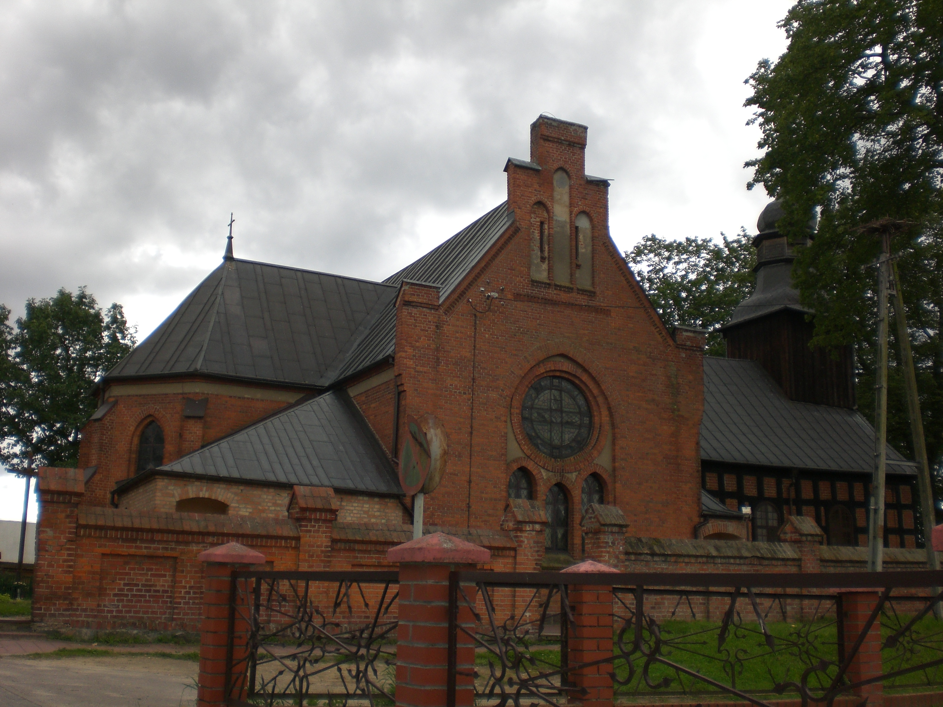 Saint Anne church in Przechlewo, Poland